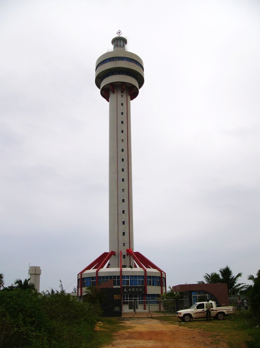 Mulan Tou Lighthouse, 2004